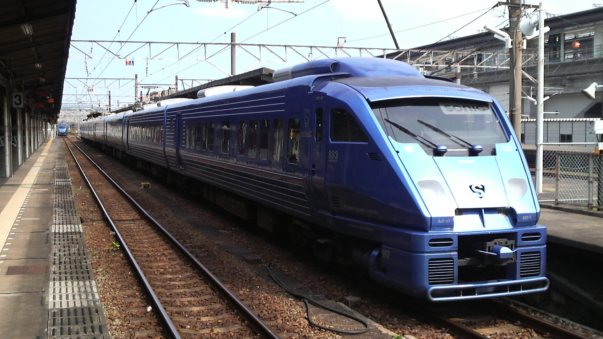 大分駅で撮影した883系の全体画像。編成前から中ほど2両は、5両化から7両化の際に新製された1000番台。A total image of 883 system which I photographed considerably at a station. The 883-1000 produced in the case of becoming it 7cars from becoming it 5cars for formation newly in 2cars middle.